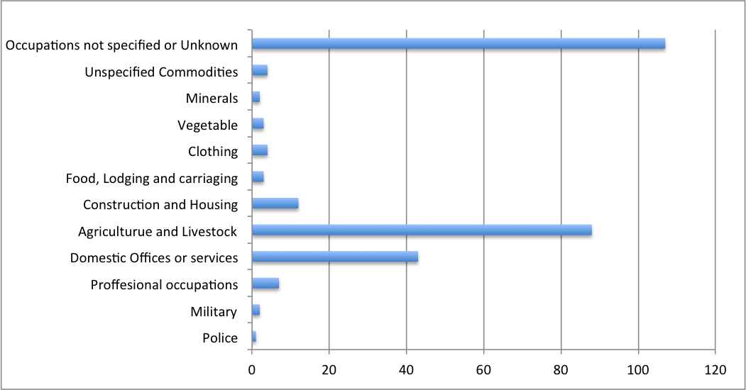 It is a graph based on the occupations that the population of Henstead were involved in in 1881.